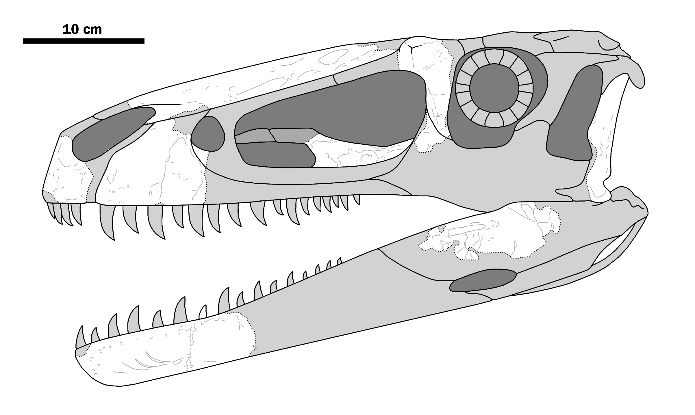 Eotyrannus skull reconstruction, based on "The osteology and affinities of Eotyrannus lengi and Lower Cretaceous theropod dinosaurs from England" - EThOS